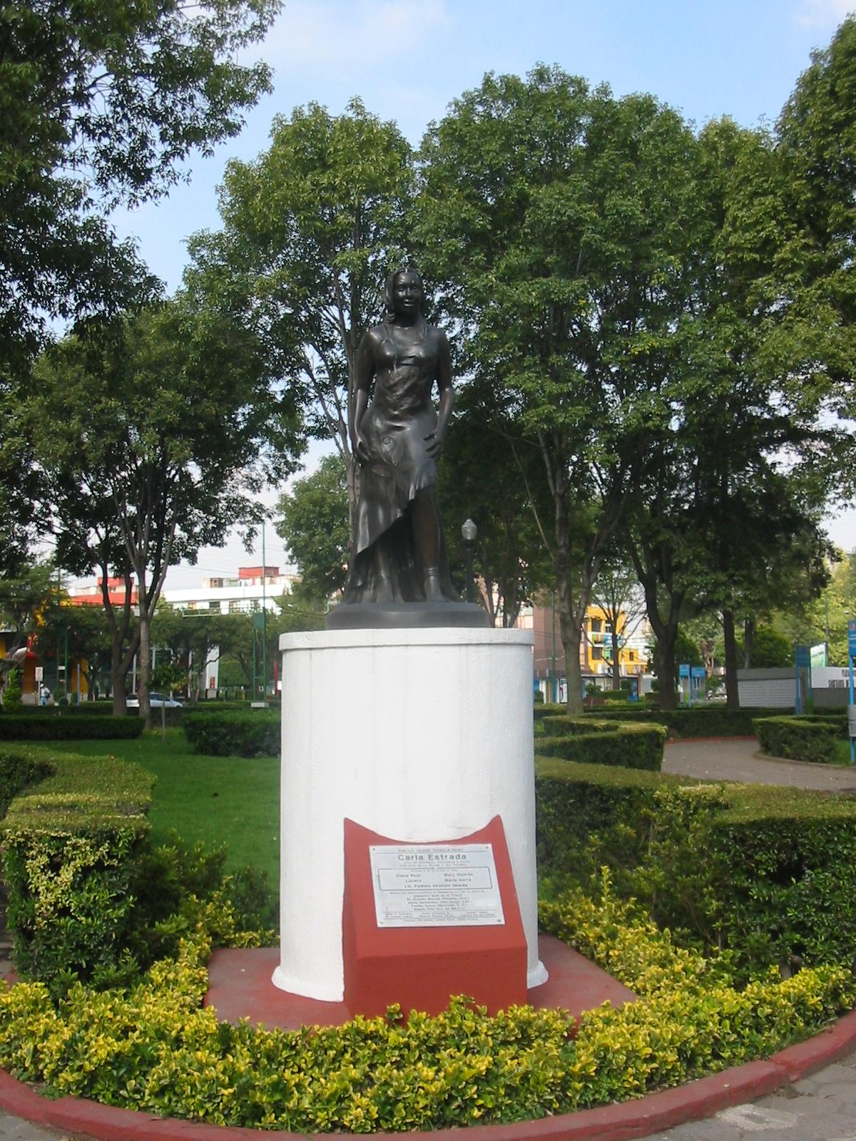 Statue of Carla Estrada on permanent display in the Jardin de los Grandes Valores (Garden of Great Values) in Mexico City. Sculpted by Jose Barrera, Antonio Vielma and Alfredo Calvillo. Unveiled in 2006.